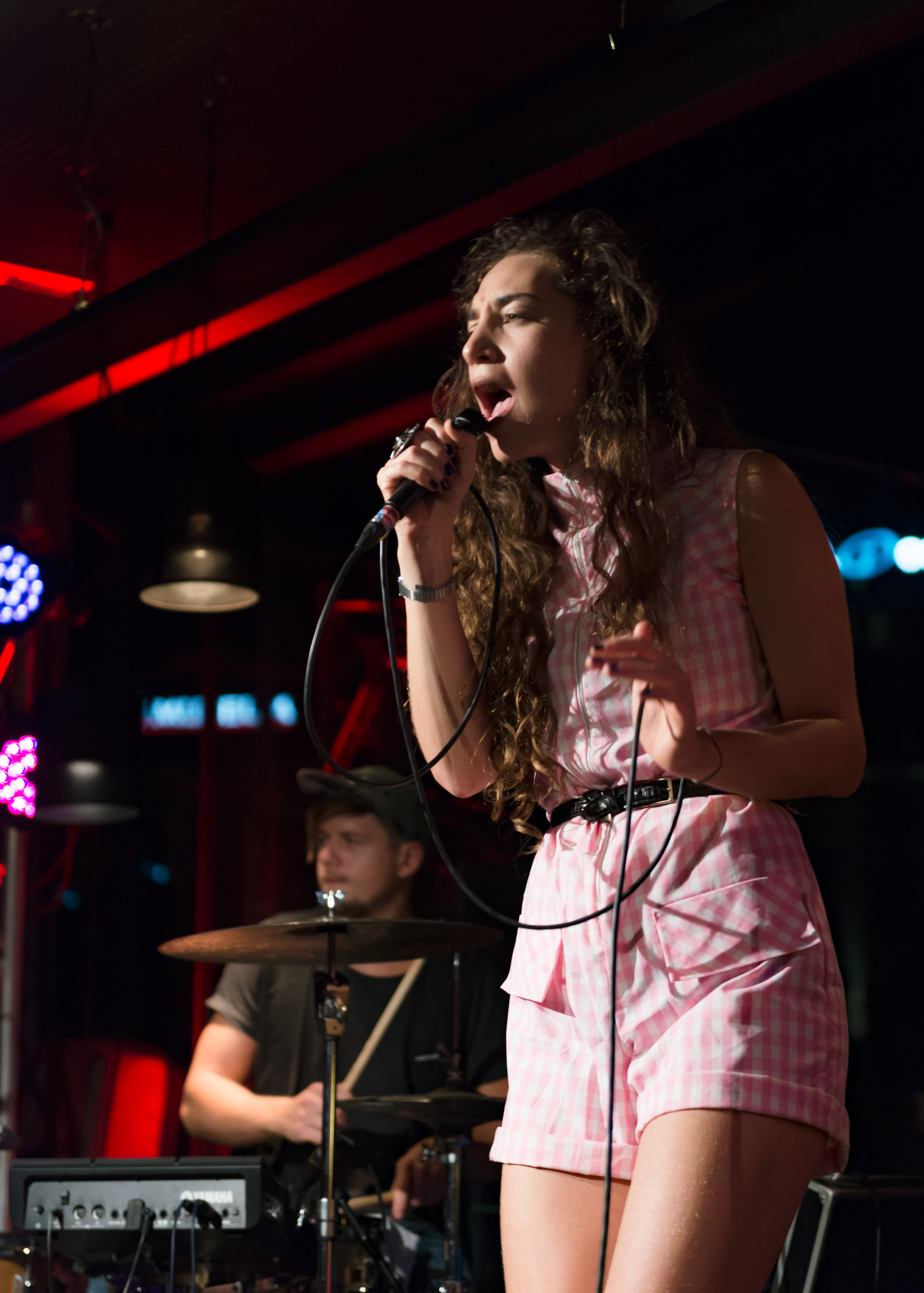 Playing Savage (Noa Ben-Gur) - concert at Akustik Woodstock Festival 2016 at HEUER am Karlsplatz in Vienna, Austria.